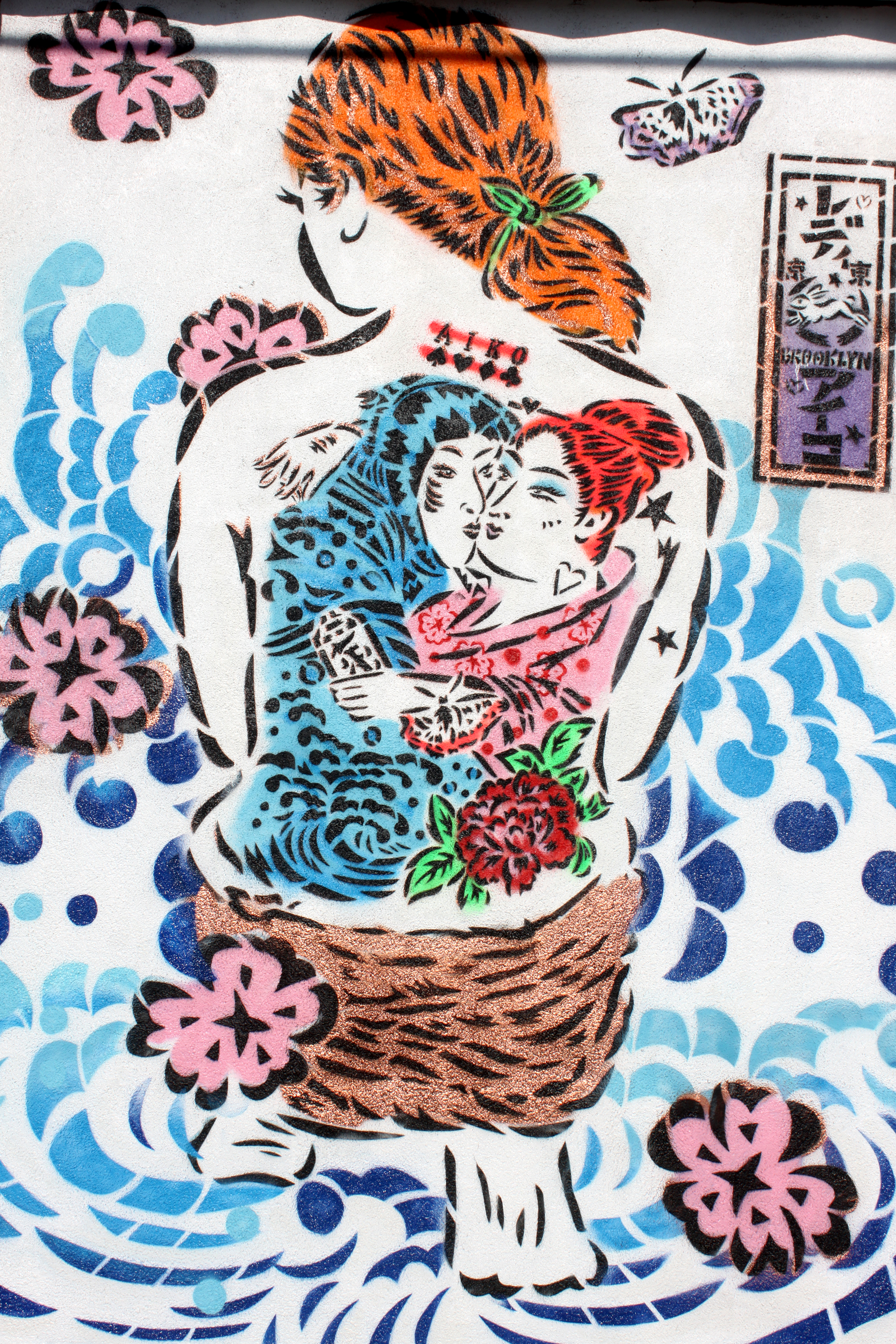 Art by Aiko Nakagawa (AIKO), Tokyo born street artist who is based in Brooklyn, New York.